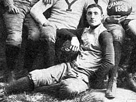 Doctor and football coach William Charles Wurtenburg in the 1888 Yale football portrait